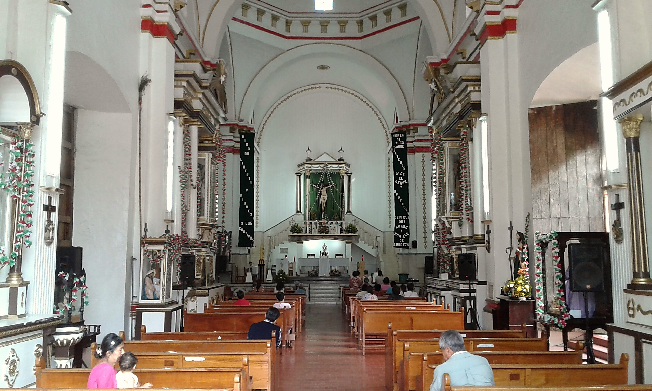 church interior